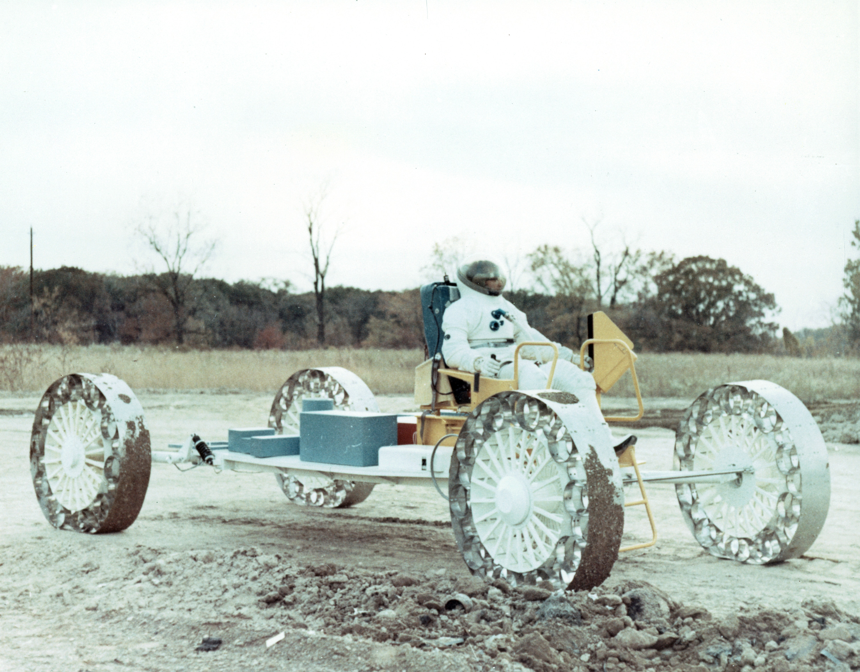 A concept of a possible Lunar Roving Vehicle (LRV) built by the Grumman Industries for NASA’s Marshall Space Flight Center (MSFC), this Mobility Test Article (MTA) is undergoing a full fledged test, complete with space suit attire. The data provided by the MTA helped in designing the LRV, developed under the direction of MSFC. The LRV was designed to allow Apollo astronauts a greater range of mobility during lunar exploration missions. (MRPO) MRD/SPD Discipline(s): n/a (MRPO) Subject Type: n/a Keywords: Lunar Roving Vehicle, LRV, Mobile Test Article, MTA, Grumman MSFC Negative Number: 0401758 Reference Number: MSFC-75-SA-4105-2C